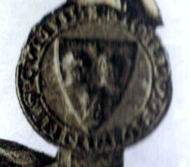 Seal of John Comyn II, from attachment to charter (original) dated 1278